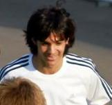 Facundo Bertoglio